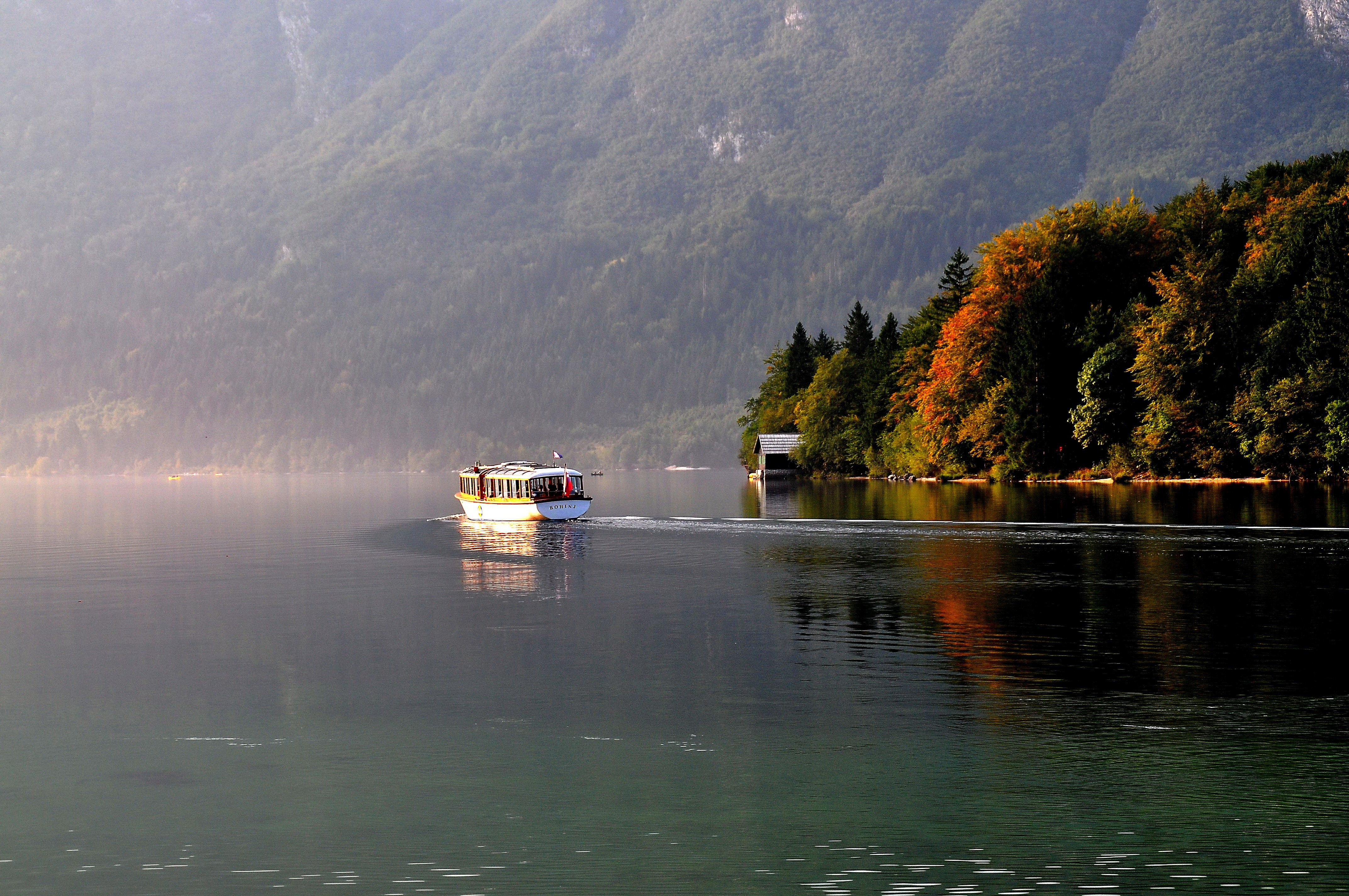 Excursion boat on the Lake Bohinj in the Upper Carniola, Slovenia